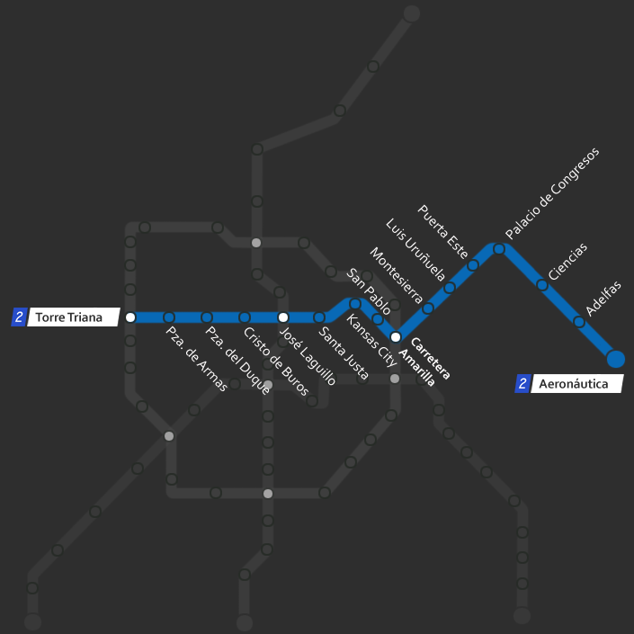 Line 2